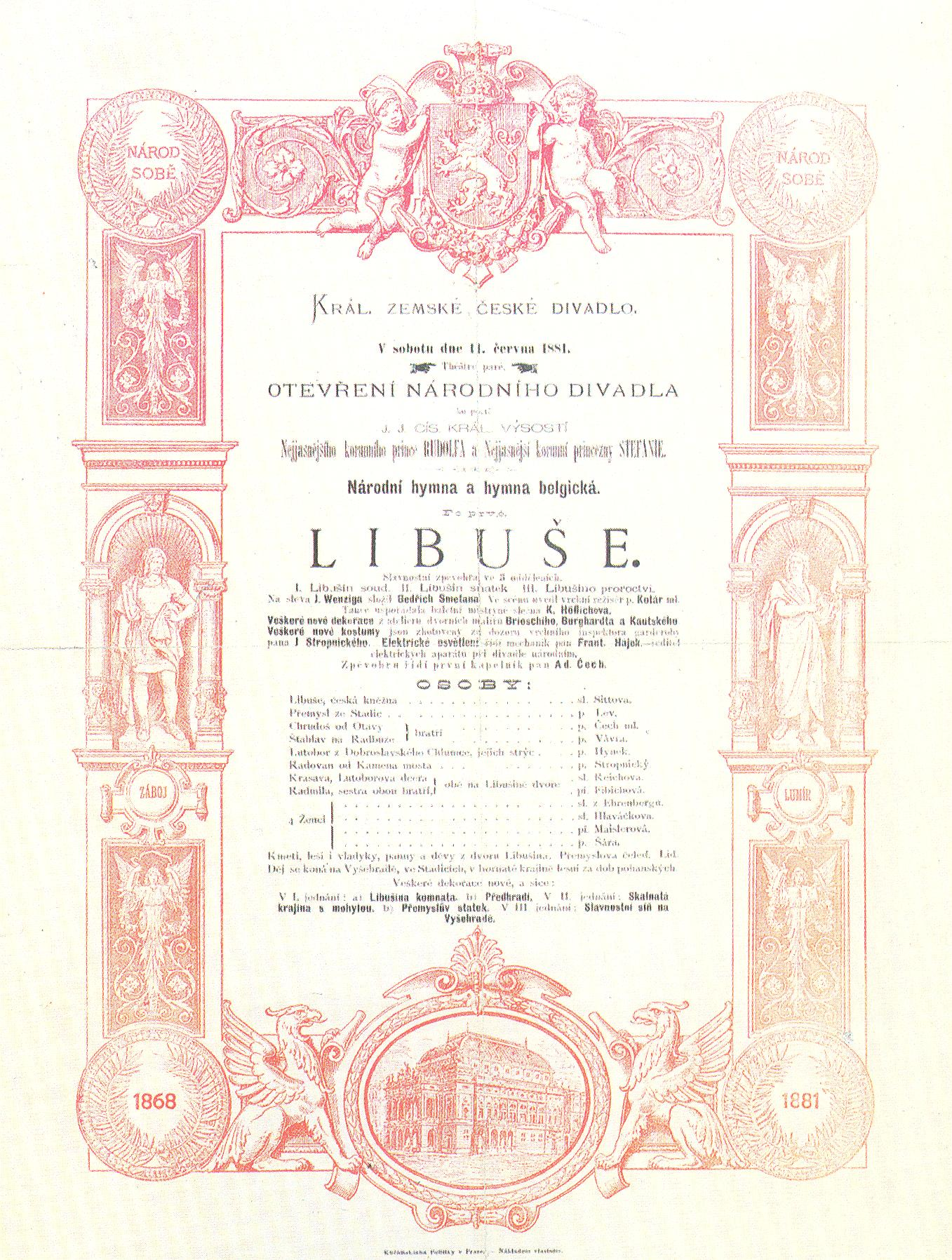 Title page of the programme for the premiere of Bedřich Smetana's Libuše (June 11, 1881)